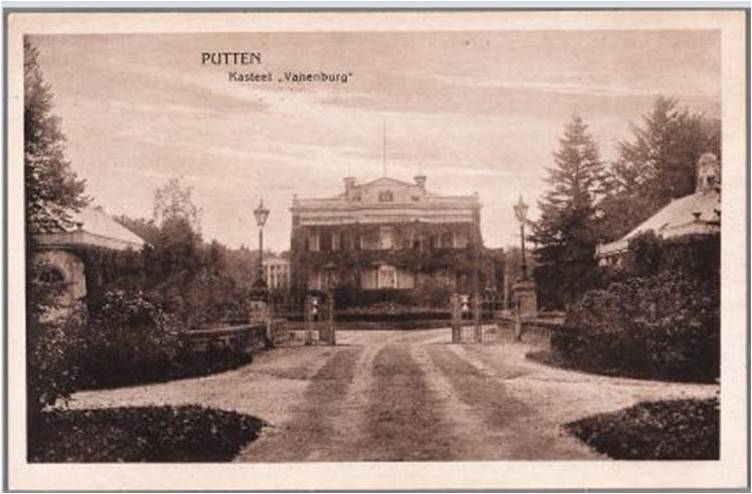 Forecourt of De Vanenburg after 1924